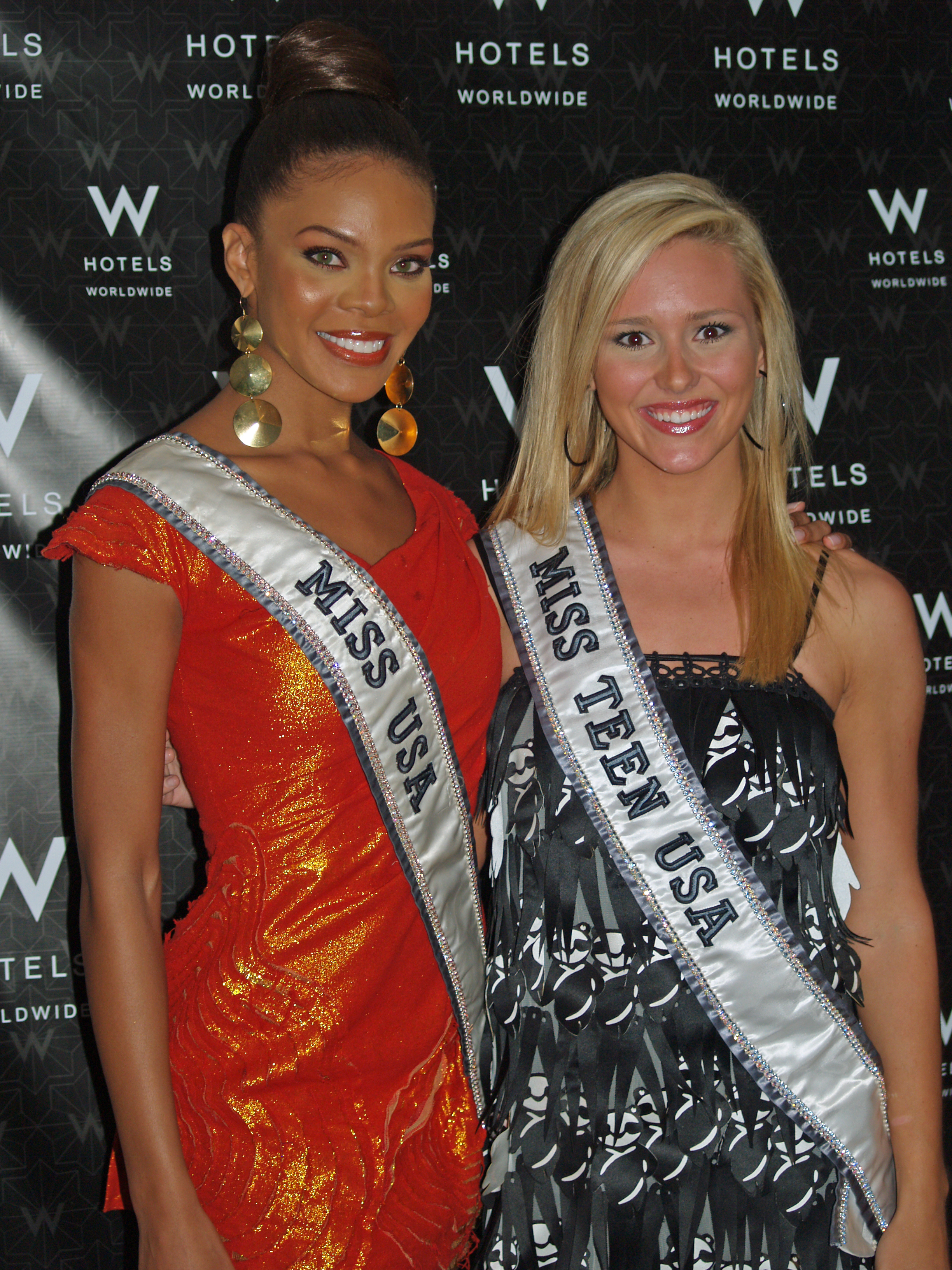 Crystle Stewart and Stevi Perry outside the Vivenne Tam show at the Spring 2009 collection Mercedes-Benz Fashion Week (aka New York Fashion Week)